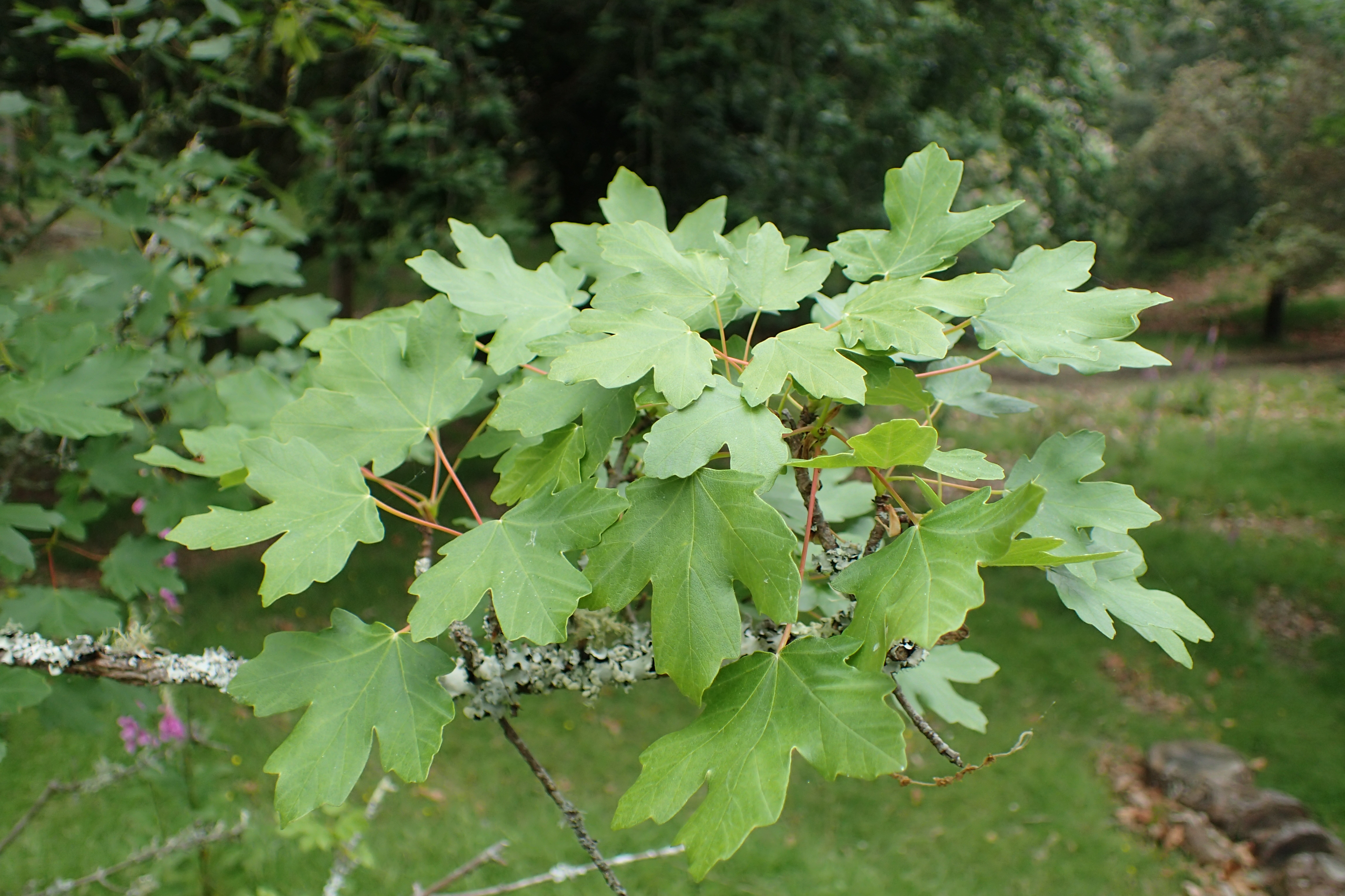 Acer granatense in Hackfalls Arboretum, Hawkes's Bay (NZ)